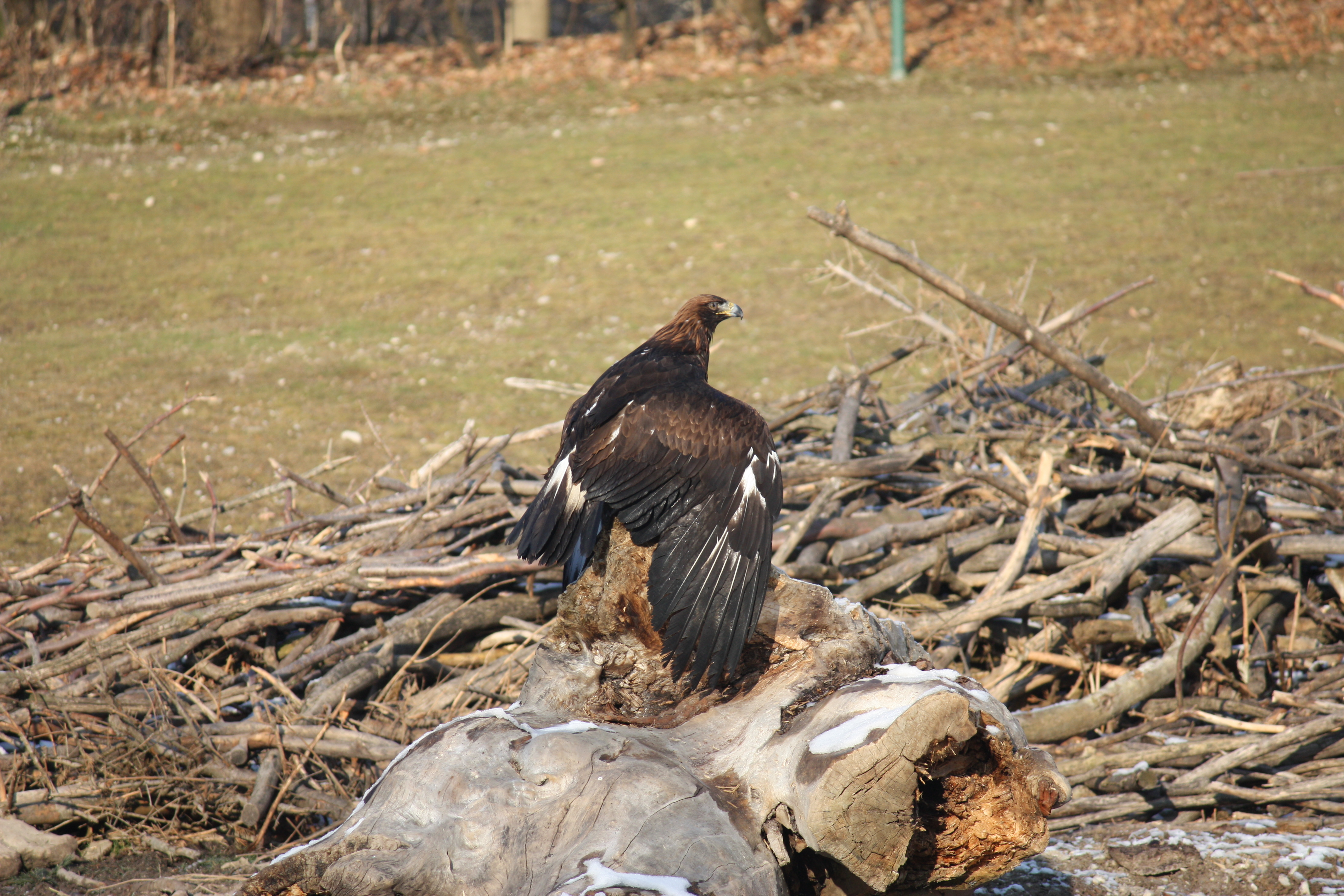 Golden eagle